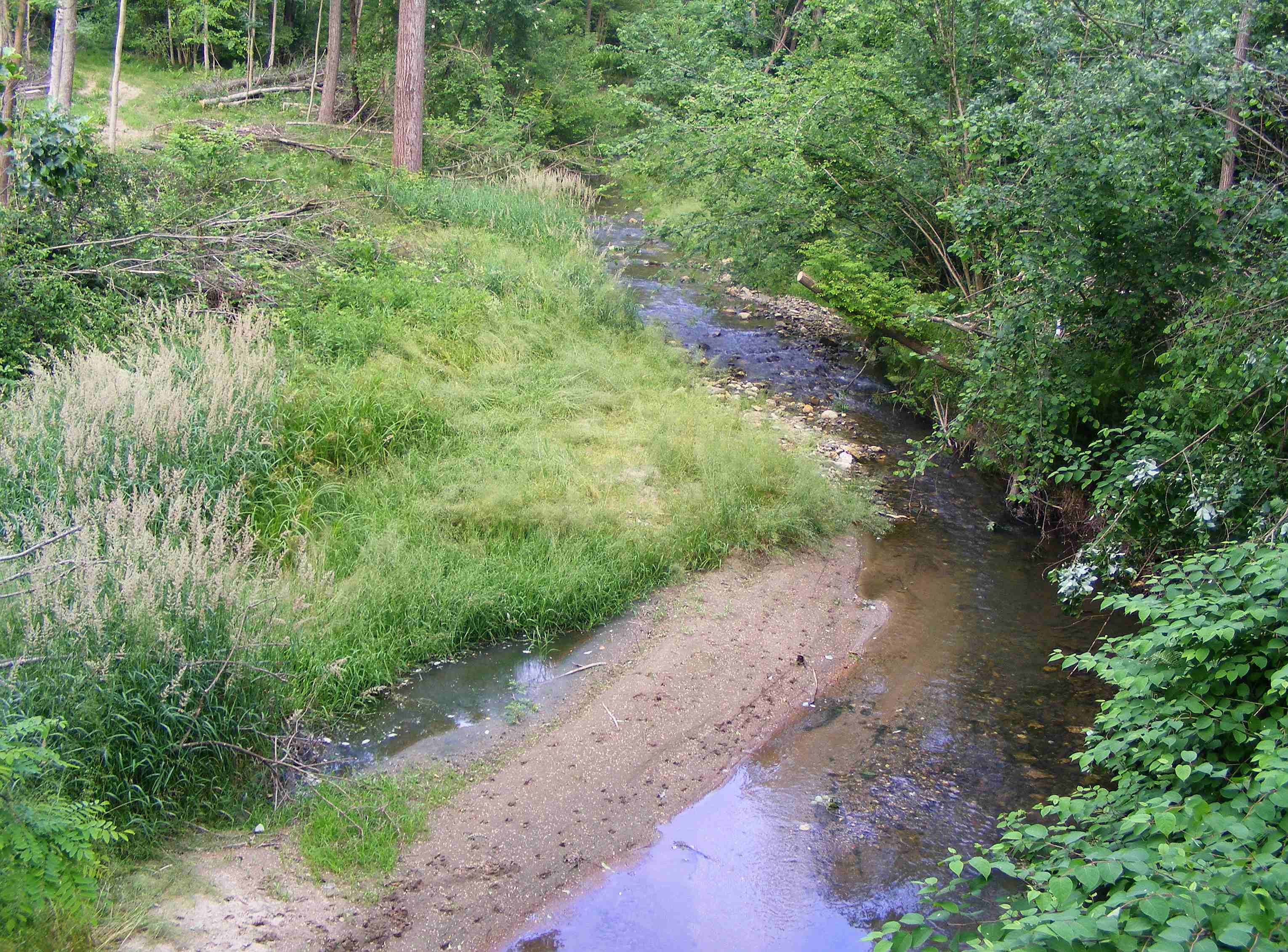 Chiebbia creek at Ronco Biellese (BI, Italy)